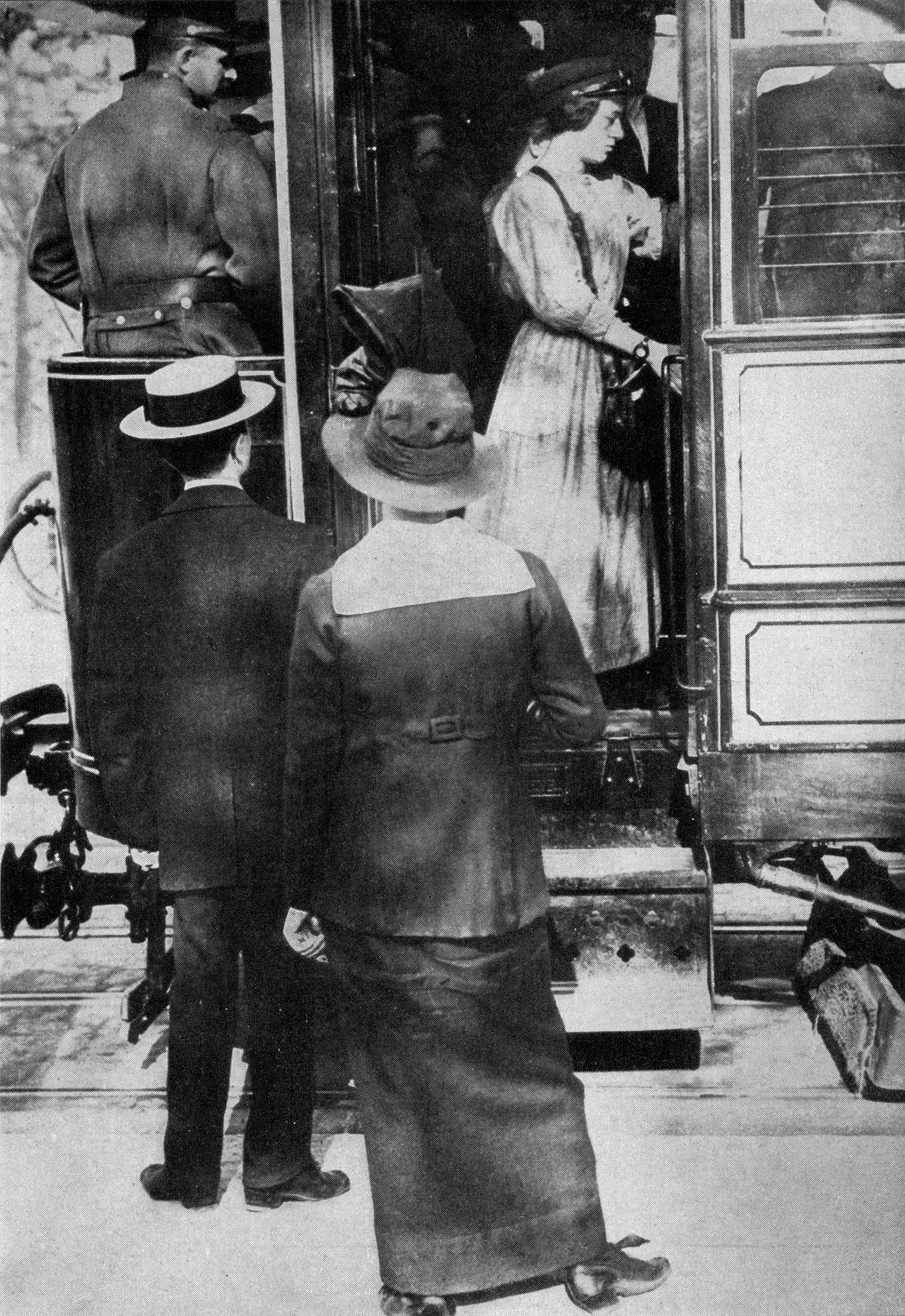 FARES TO THE FAIR. Among the many occupations which the women of France are pursuing, in order that men may be released for service in the army, are those connected with the street railway systems of Paris and other cities. Motorwomen, girl conductors, ticket sellers, and ticket takers are now the rule rather than the exception. Here a young girl is seen wearing the uniform cap of a surface-car conductor. From her shoulders hangs the big leather bag in which she deposits the passengers' sous and centimes.